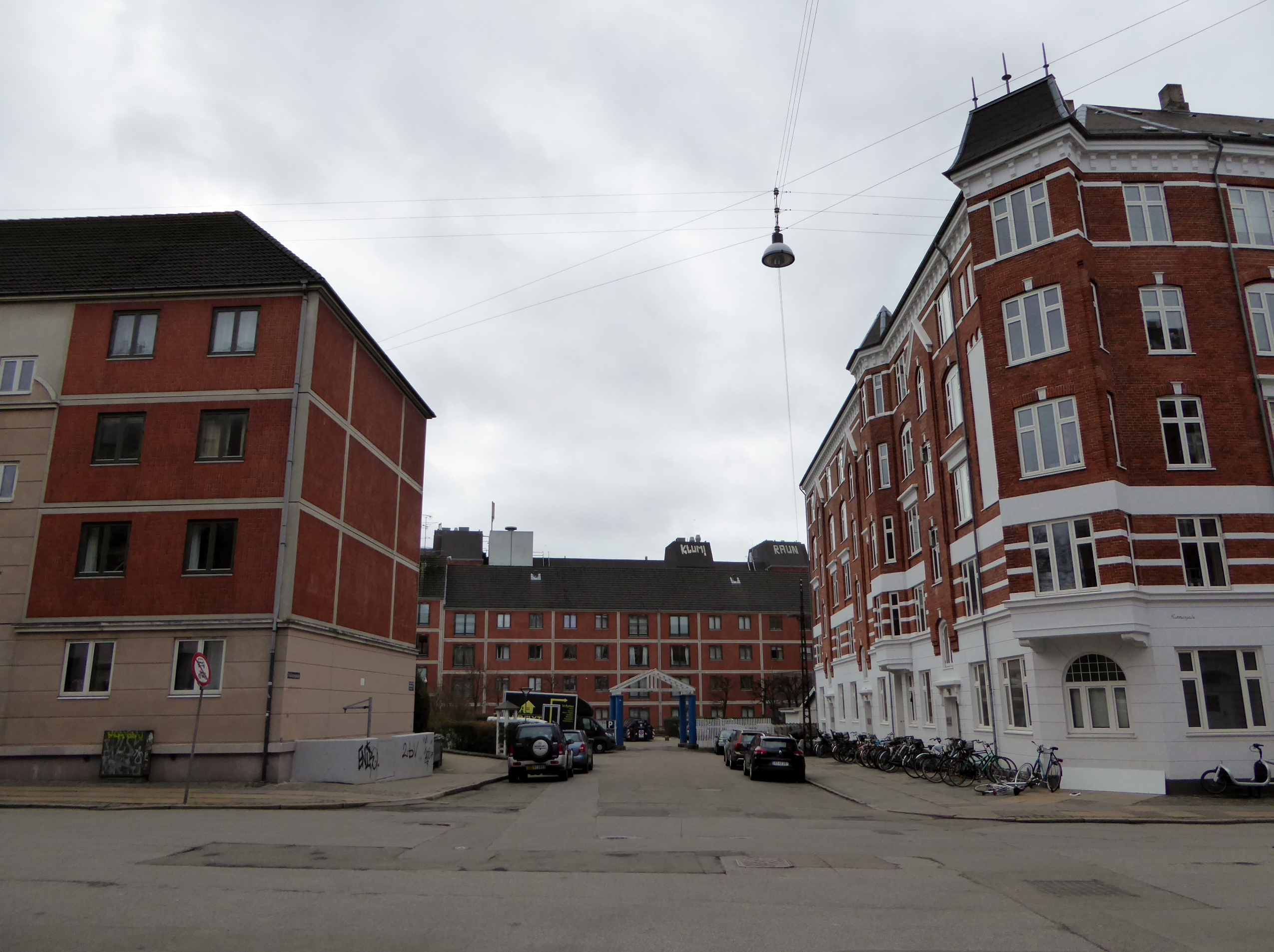 The street Vulkangade in Nørrebro in Copenhagen.